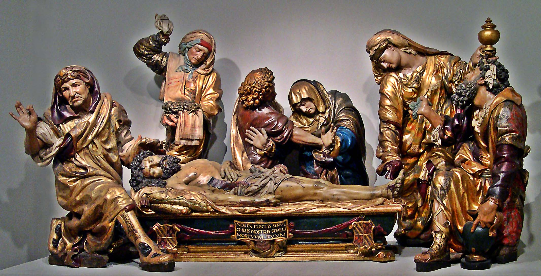 The Holy Burial, sculpture in polychromed wood, actually exposed in the Museo Nacional de Escultura, in Valladolid (Spain)